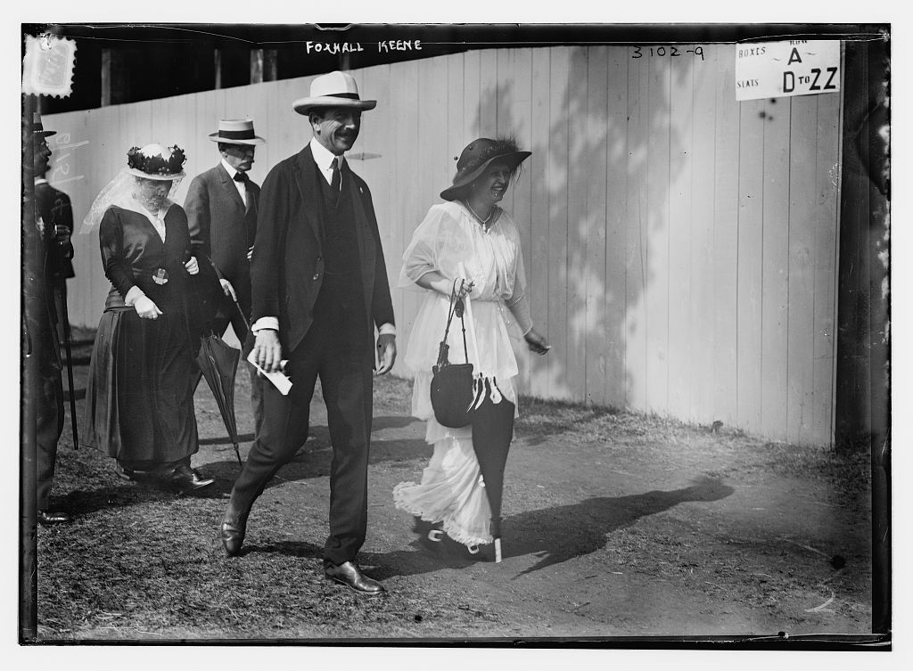 Foxhall Keene on June 15, 1914 at the Meadowbrook Polo Club for the International Polo Cup Bain News Service,, publisher. Foxhall Keene [between ca. 1910 and ca. 1915] 1 negative : glass ; 5 x 7 in. or smaller. Notes: Title from unverified data provided by the Bain News Service on the negatives or caption cards. Forms part of: George Grantham Bain Collection (Library of Congress). Format: Glass negatives. Repository: Library of Congress, Prints and Photographs Division, Washington, D.C. 20540 USA, General information about the Bain Collection is available at Persistent URL: Call Number: LC-B2- 3102-9